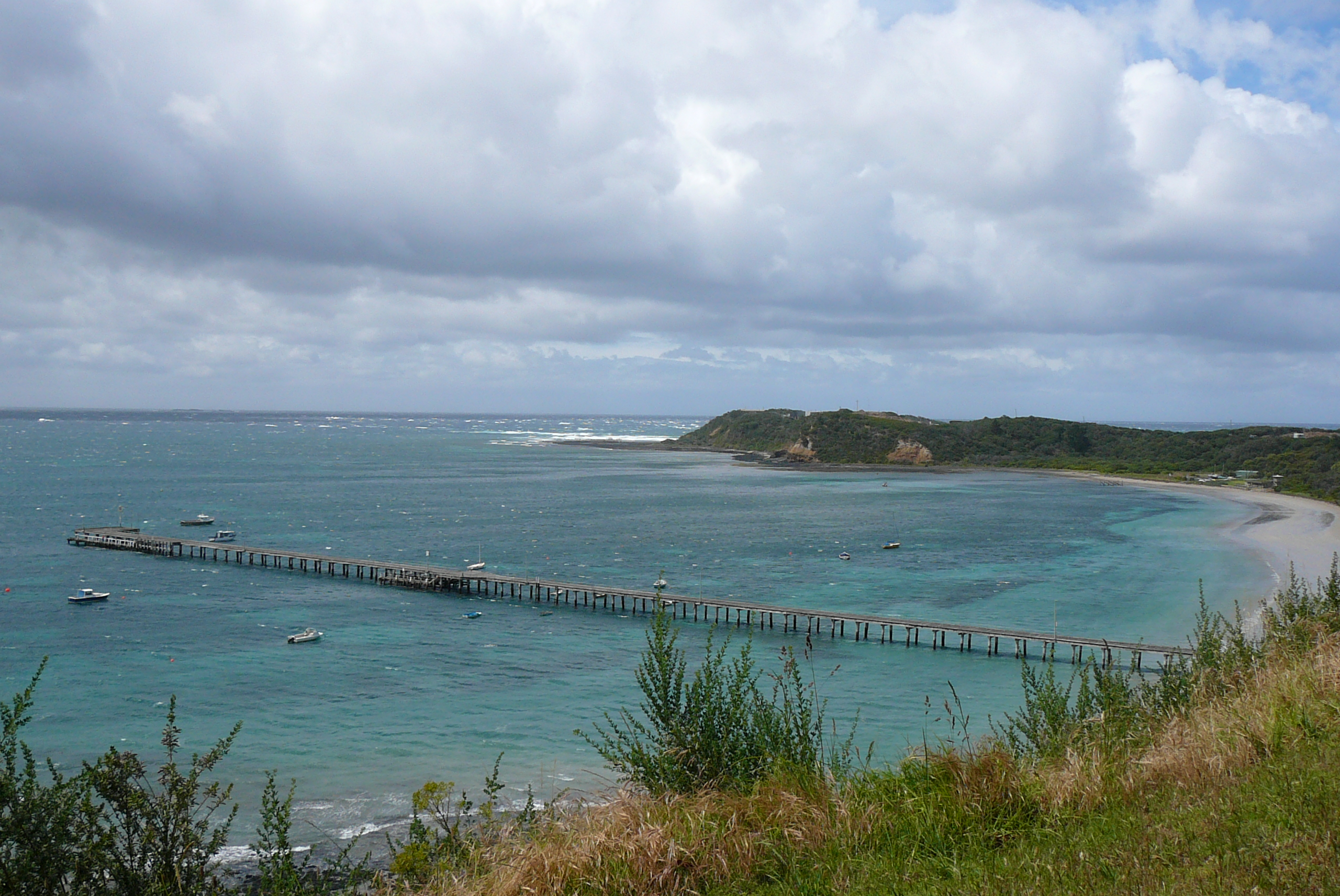 Flinders Pier in Flinders, Victoria and surrounding Western Port Bay. 2008.